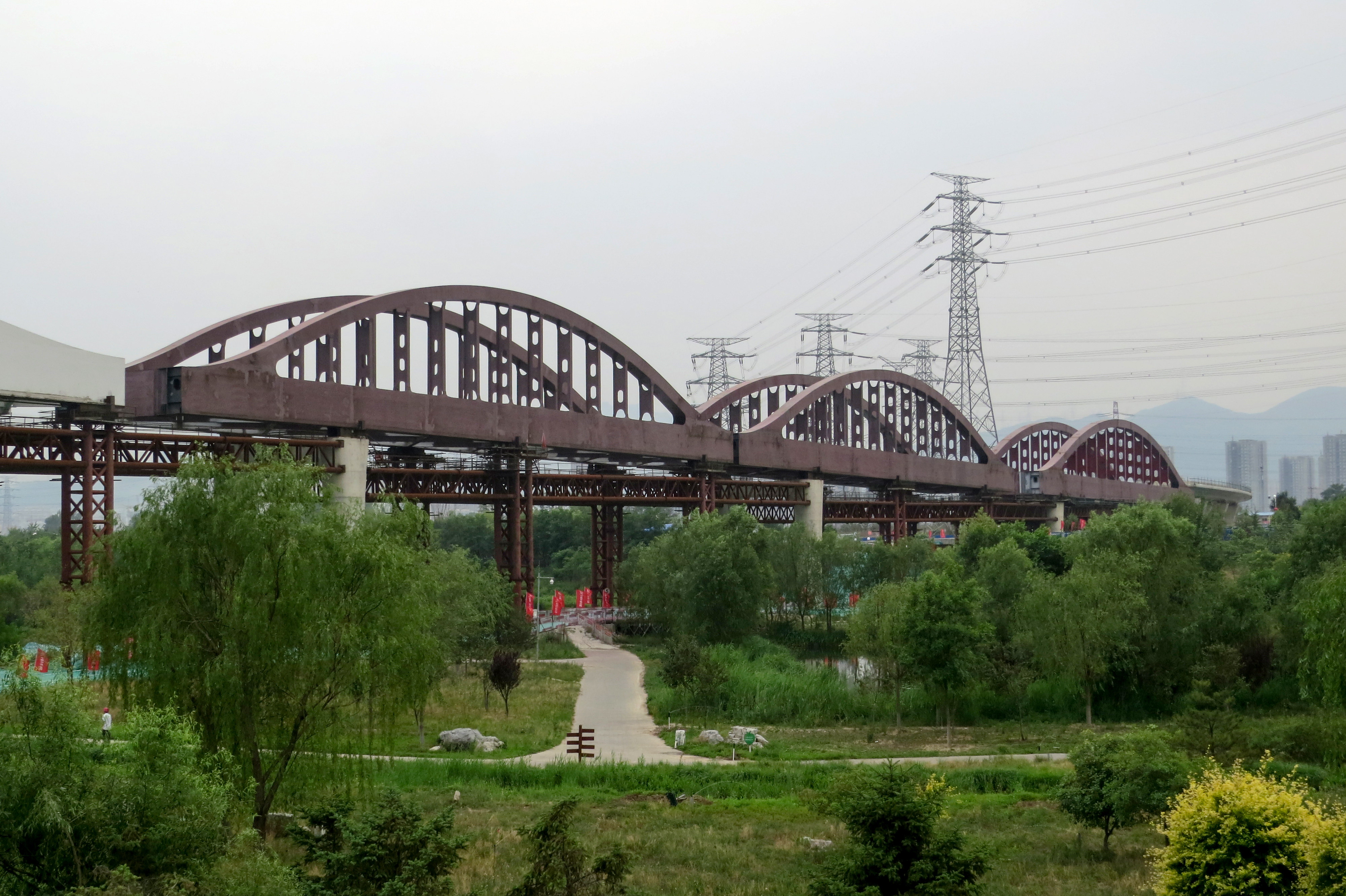 Southeast of Yangsan Railway Station. Maybe only the section west of Sidaoqiao would open this year...